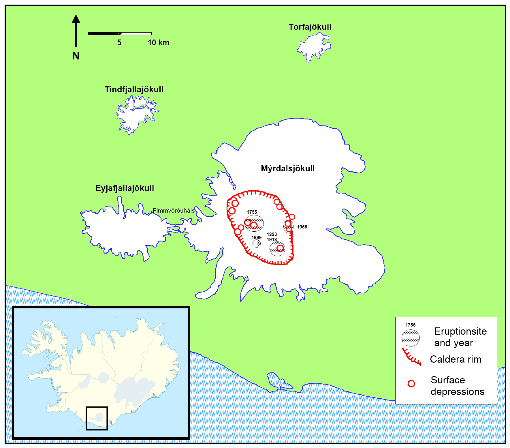 Partly enlarged section: shows the area of Mýrdalsjökull-glacier with estimated location of the caldera of Katla-volcano. Location is based on this study Pdf